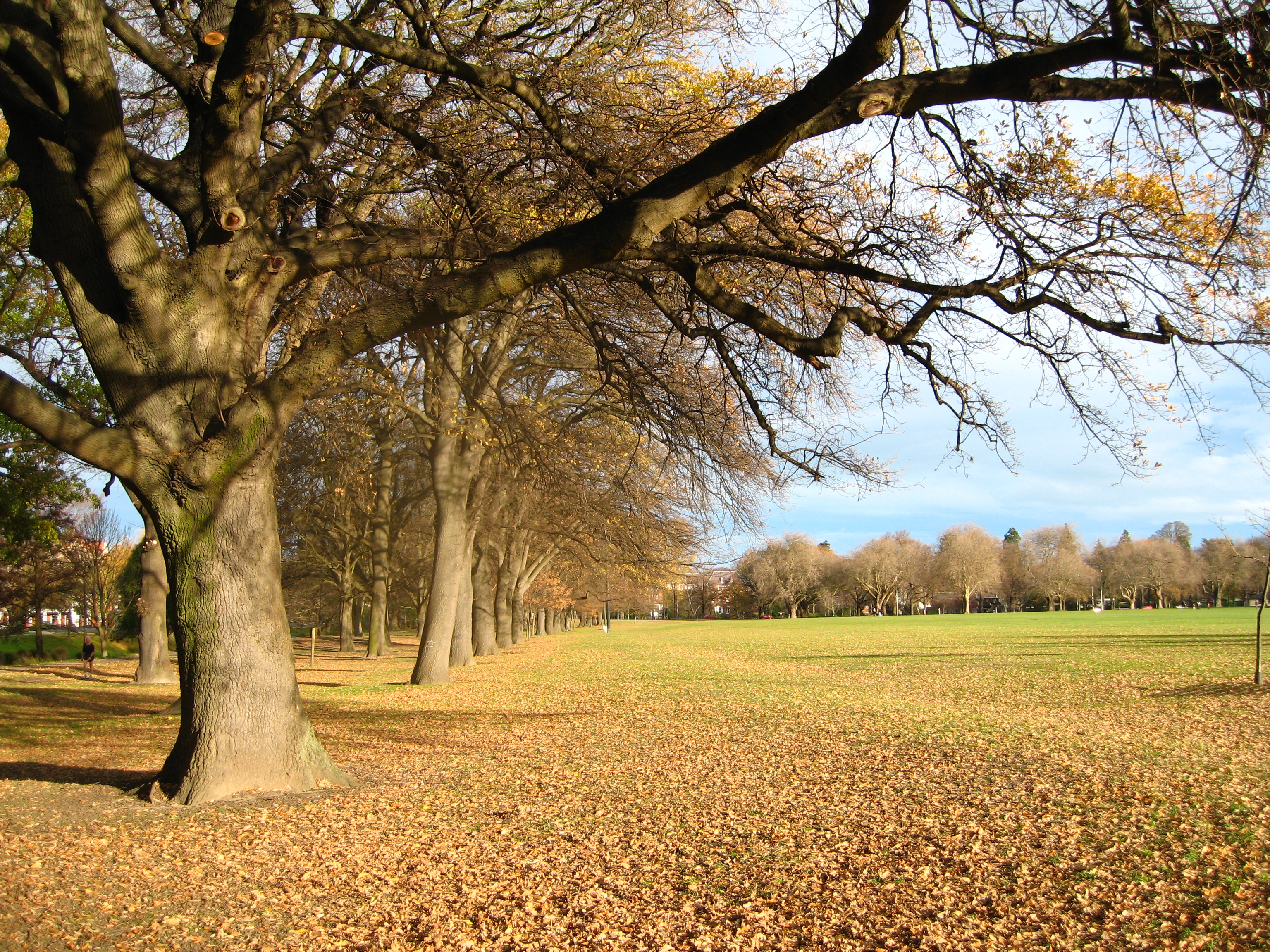 Hagley Park in autumn, Christchurch, New Zealand.